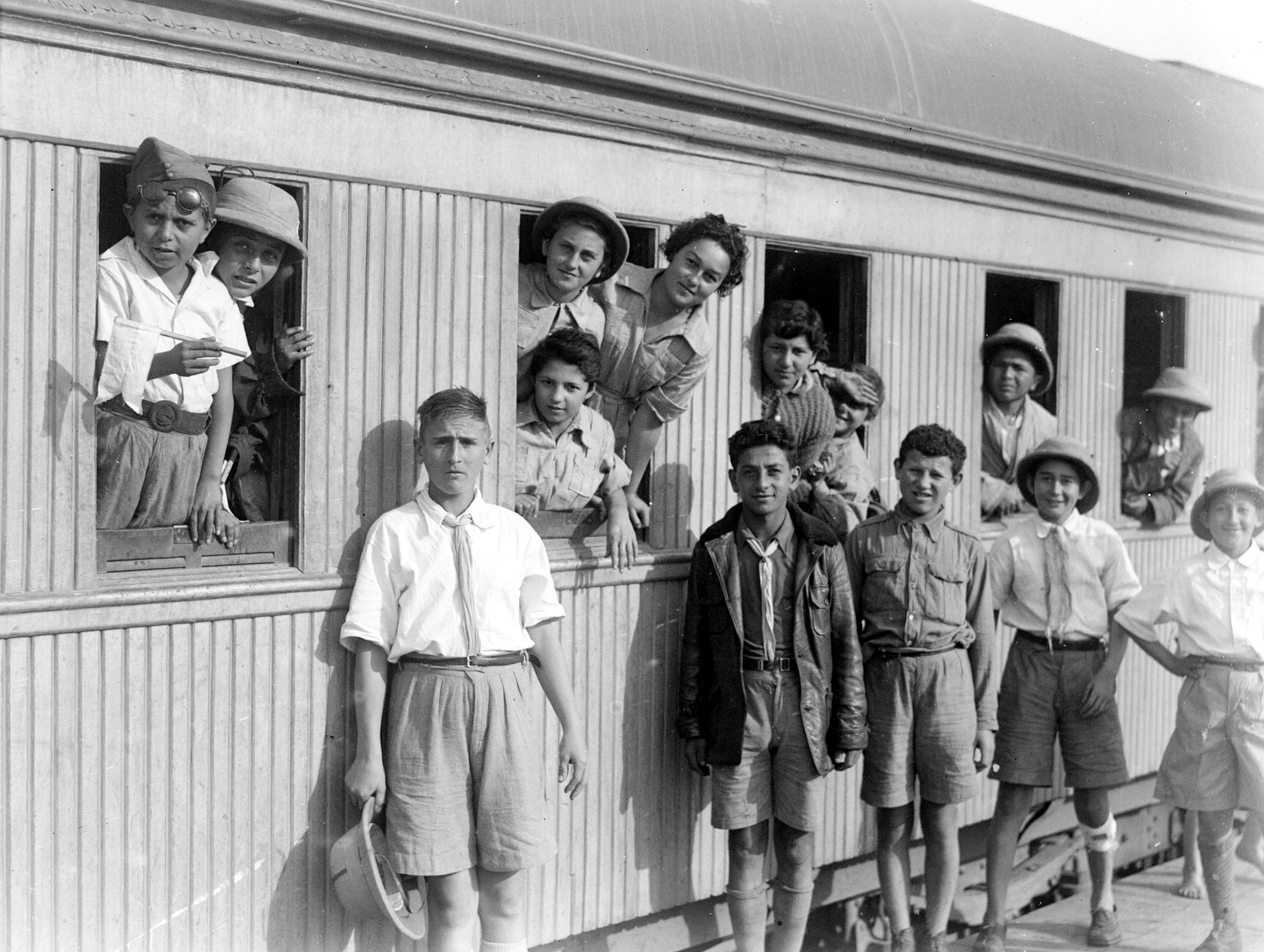 A GROUP OF "TEHERAN CHILDREN" IN FRONT OF A RAILWAY CARRIAGE IN ATLIT. קבוצה של "ילדי טהרן" מחוץ לקרון רכבת בעתלית.